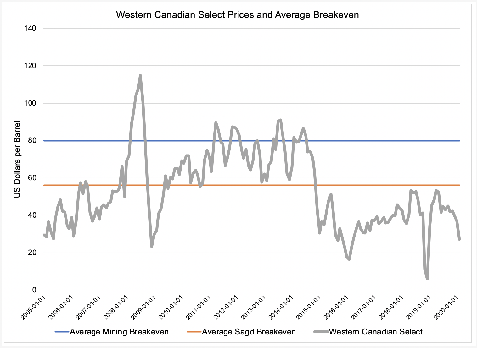 Line chart comparing Western Canadian Select price and break even price for mining and SAGD extraction.